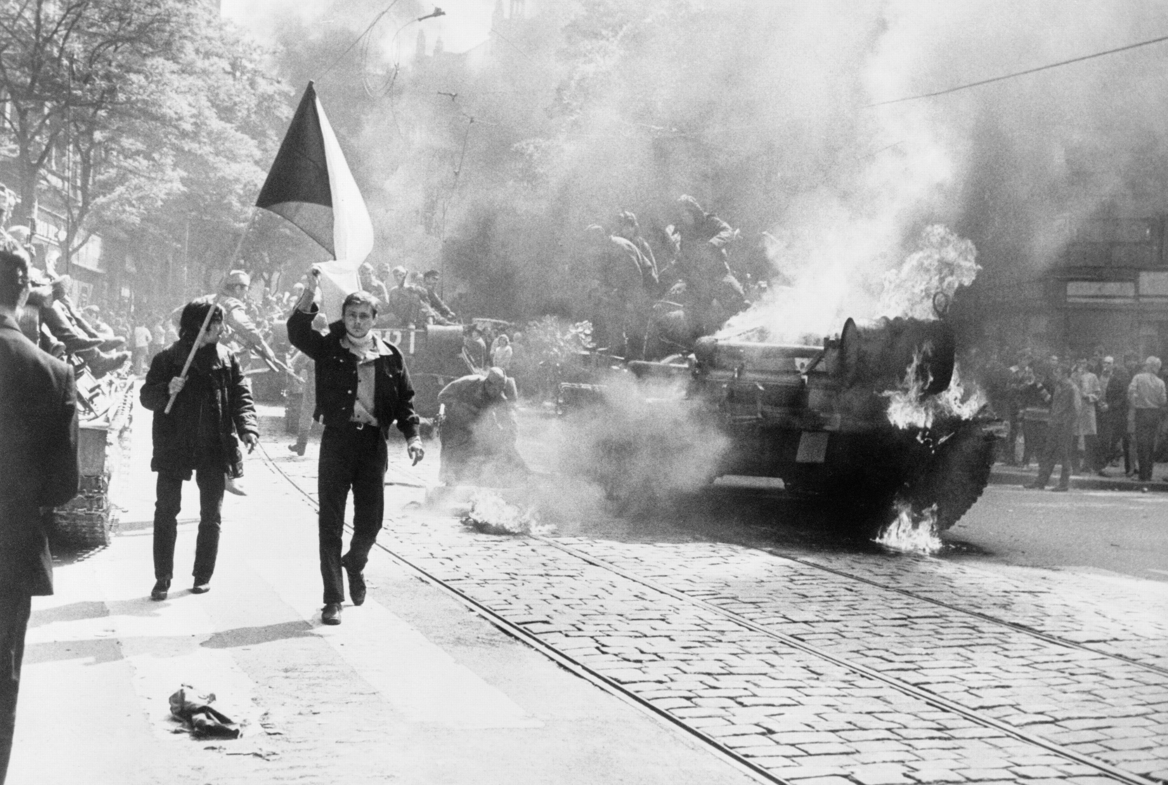 During the Soviet invasion of Czechoslovakia, Czechoslovaks carry their national flag past a burning tank in Prague. Photo from "CIA Analysis of the Warsaw Pact Forces: The Importance of Clandestine Reporting" For more information, visit the CIA's Historical Collections page (